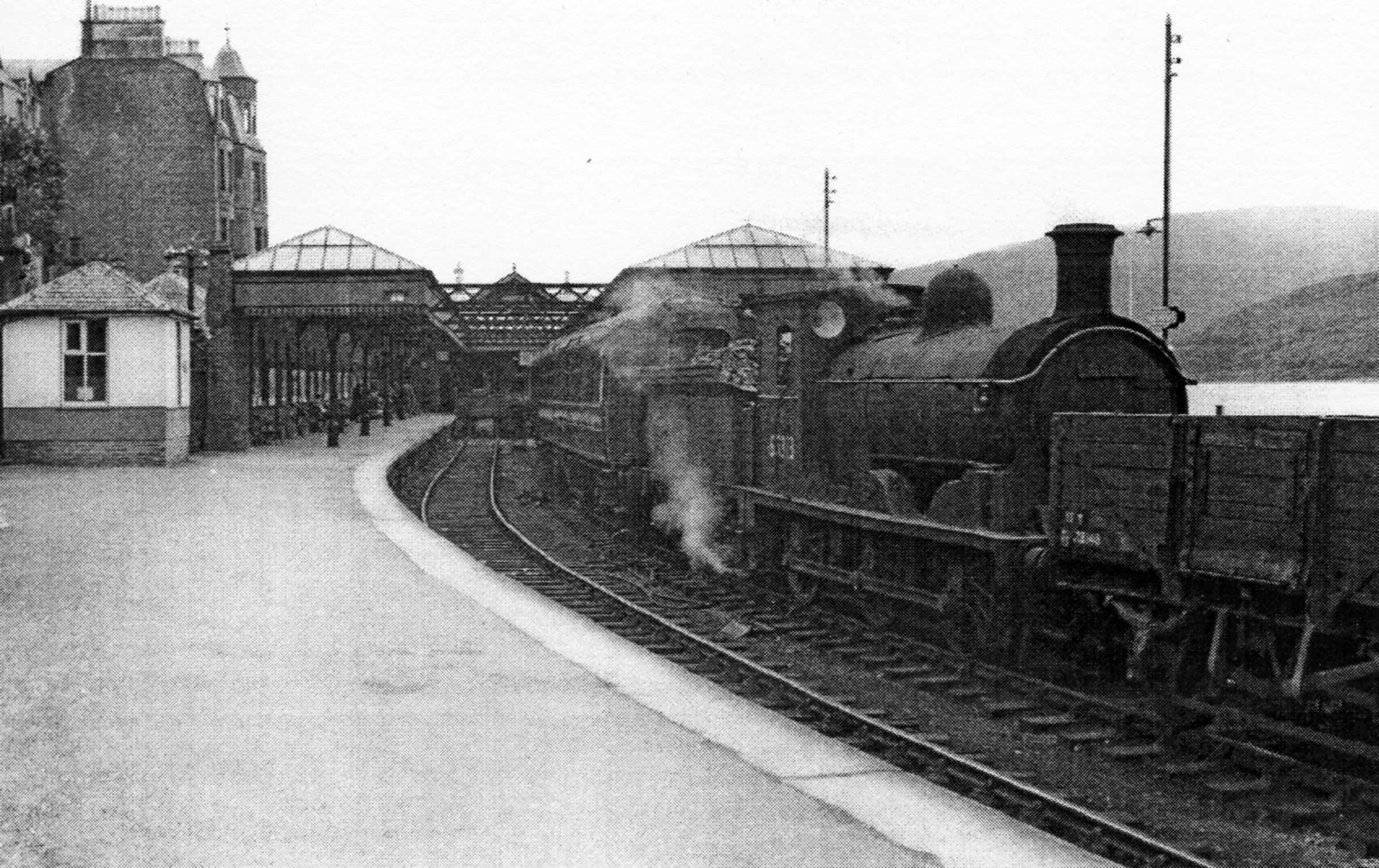 Fort William station, 1957View westward towards buffer-tops. Ex-NBR Holmes J36 0-6-0 No 65313 (built 3/1899, LNER 9757, withdrawn 7/63)is station pilot.